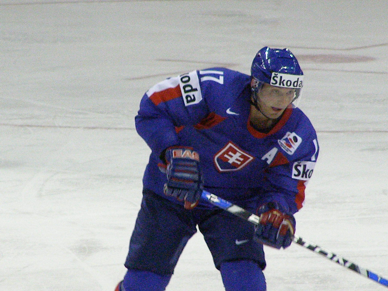 Ľubomír Višňovský, defenseman for the Slovakia men's national ice hockey team, during a game against Norway men's national ice hockey team at the 2008 IIHF World Championship.